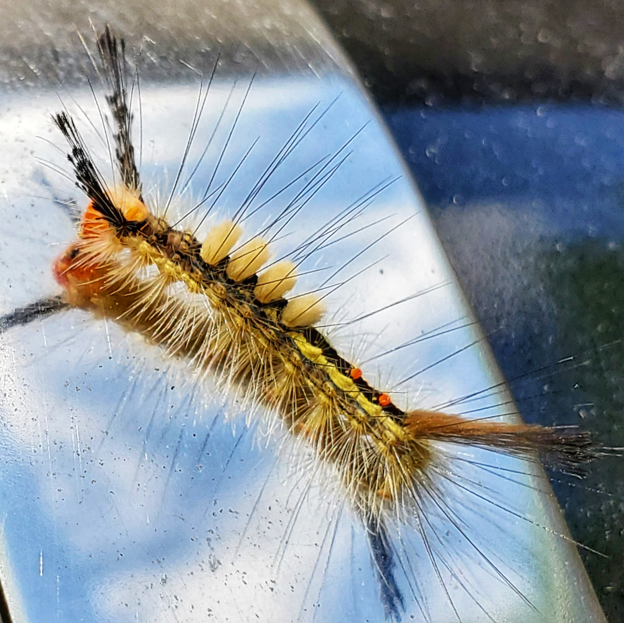 Orgyia leucostigma in Pupae stage